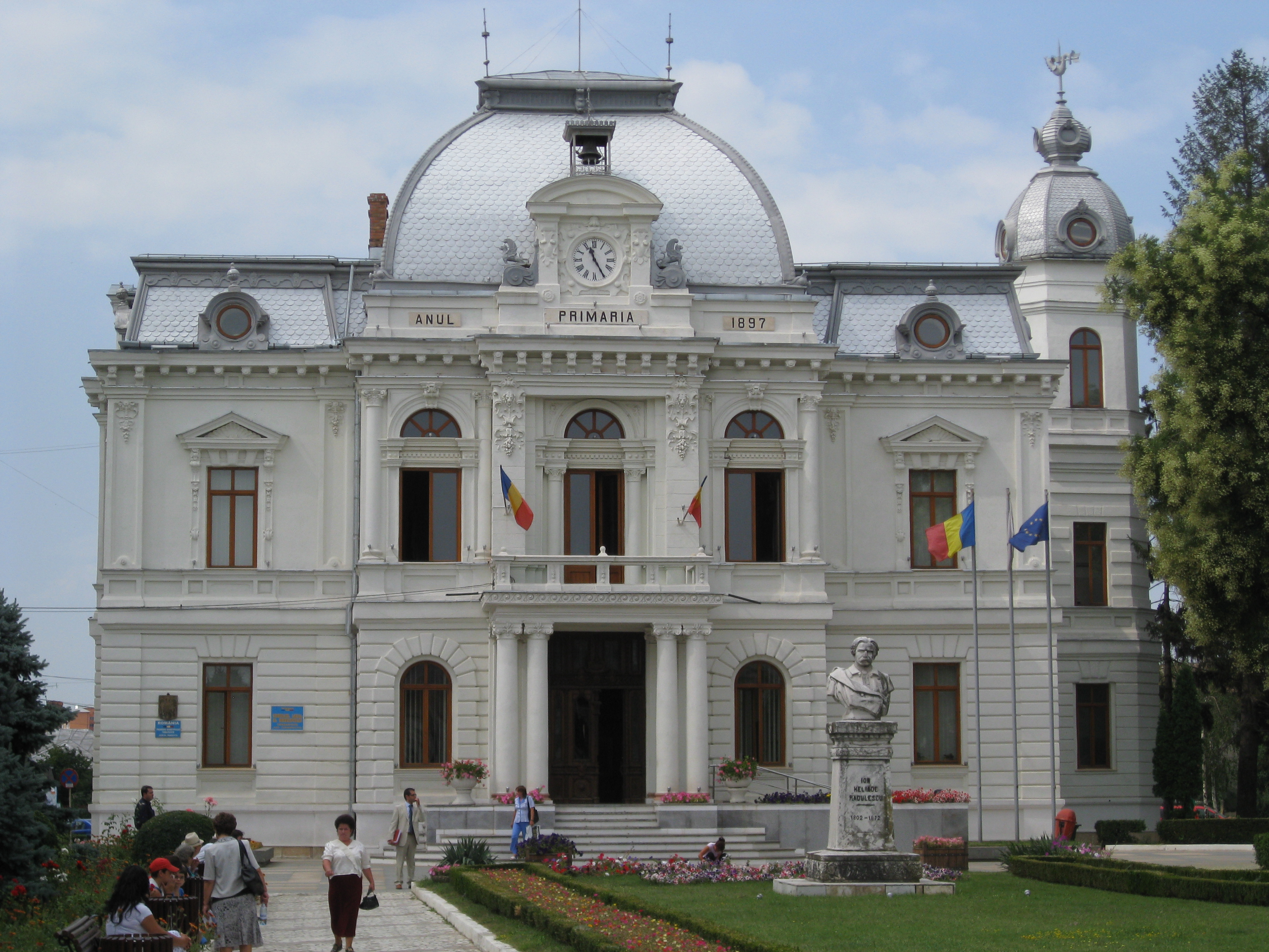 City hall, Târgovişte, Romania